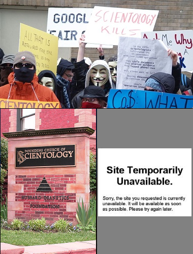 Montage of original source photos listed below.